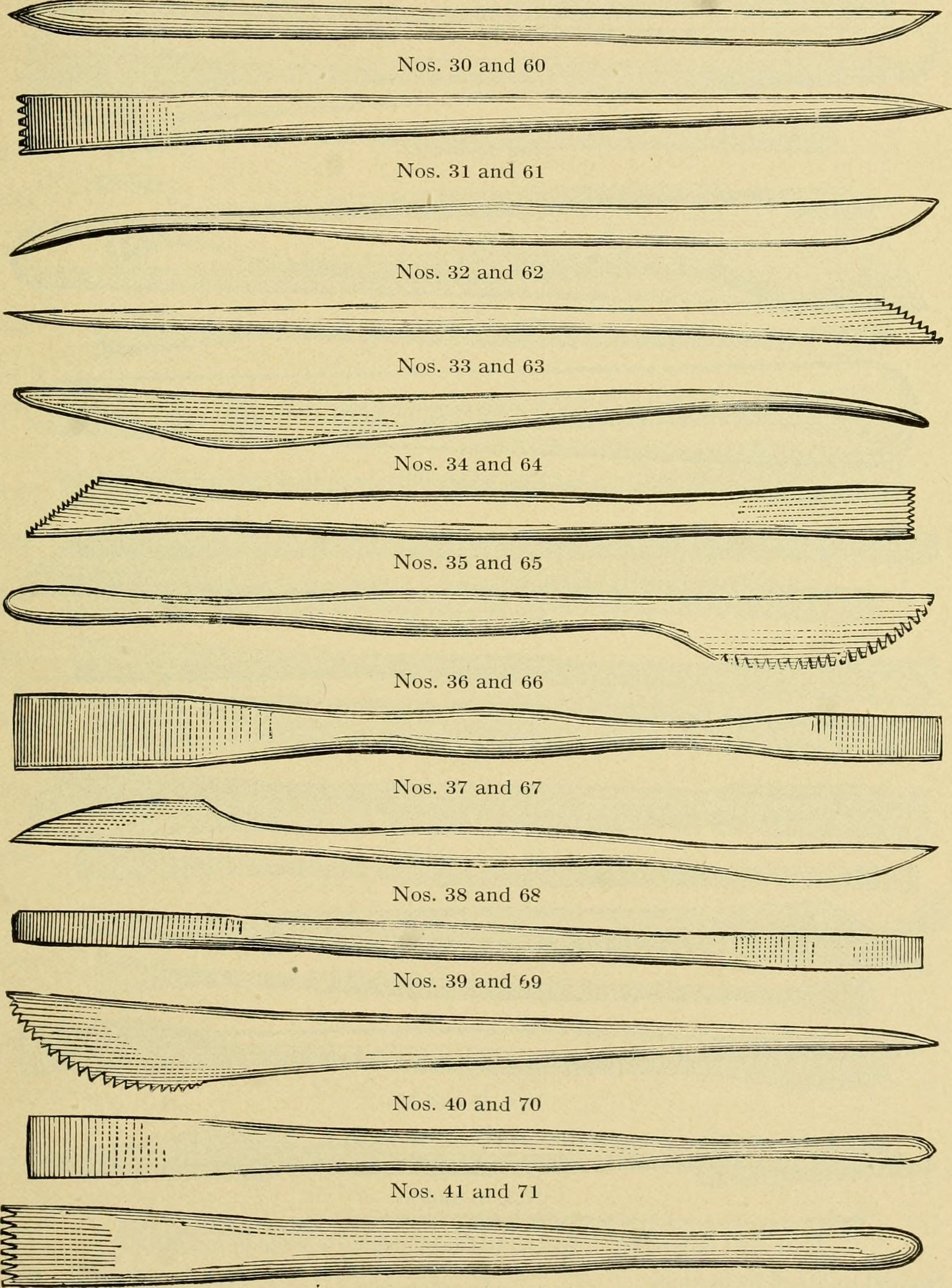 Title: Priced catalogue of artists' materials : supplies for oil painting, water color painting, china painting ... and drawing materials for architects and engineers, manual training schools and colleges. Year: 1914 (1910s) Authors: Devoe & Raynolds Co., Inc. (New York, N.Y.) Subjects: Artists' materials--Catalogs Trade catalogs--Artists' materials. Publisher: The Company Text Appearing Before Image: Nos. 1, 2, 3, 4, 5, 6, 7, 8, 9, 10, 11, 12 By doz., $2.40 NEW YORK AND CHICAGO. 225 Sculptors Modeling Materials—ContinuedBOXWOOD MODELING TOOLSFor Wax or Clay 6 in. Tools numbered from 30 up; 8 in. Tools numbered from GO up. Text Appearing After Image: Nos. 42 and 72 226 F. W. DEVOE & C. T. RAYNOLDS CO. Sculptors Modeling Materials—Continued BOXWOOD MODELING TOOLS—Continued For Wax or Clay